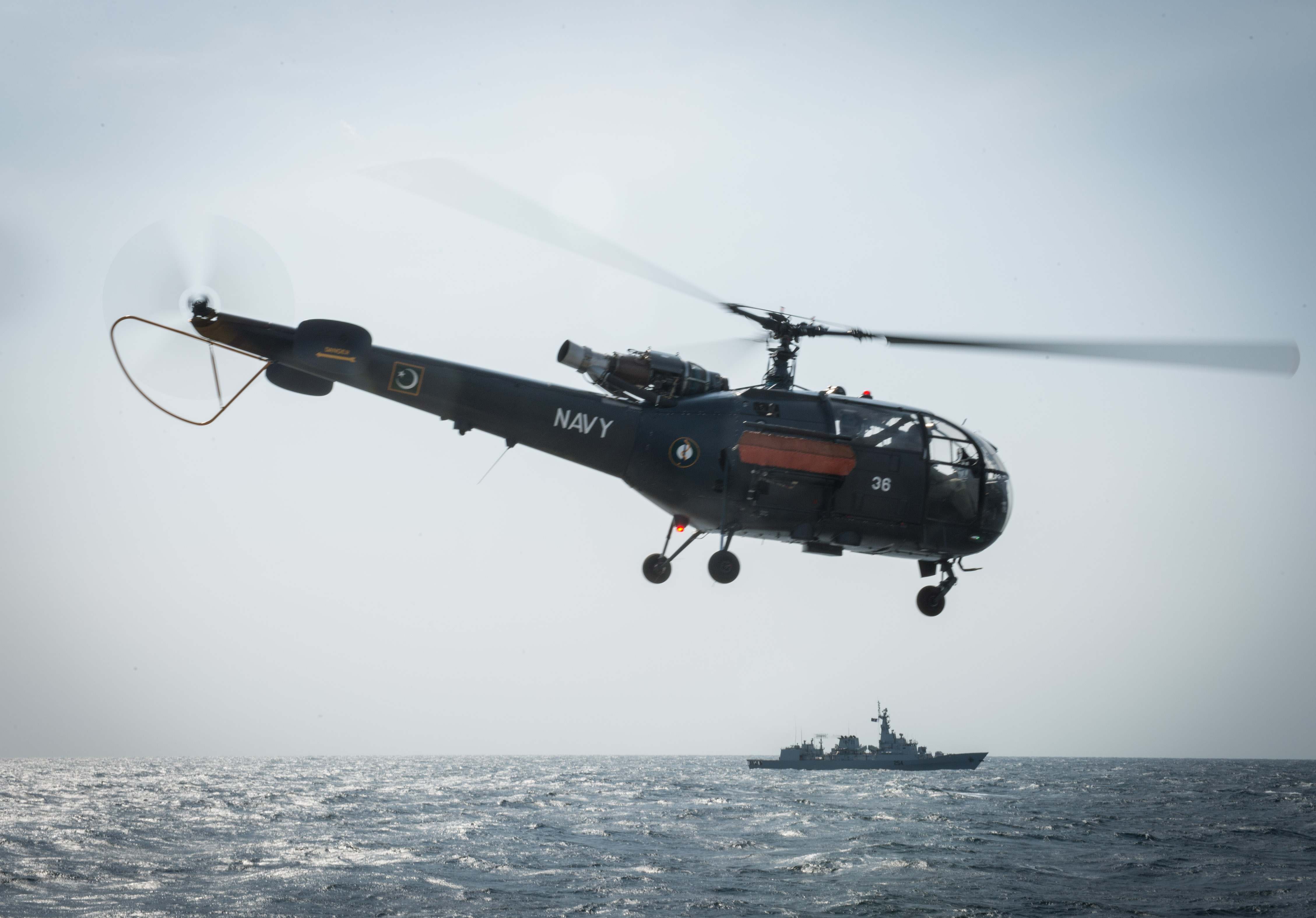 ARABIAN GULF (Nov. 5, 2014) An Alouette III helicopter from Squadron 333, the Seagulls, assigned to Pakistan navy ship Aslat (FFG 254) flies by USS Mitscher (DDG 57) during the International Mine Countermeasures Exercise (IMCMEX). With a quarter of the world's navies participating including 6,500 Sailors from every region, IMCMEX is the largest international naval exercise promoting maritime security and the free-flow of trade through mine countermeasure operations, maritime security operations, and maritime infrastructure protection in the U.S. 5th Fleet area of responsibility and throughout the world. (U.S. Navy photo by Mass Communication Specialist 2nd Class Anthony R. Martinez/Released)